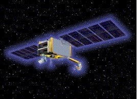 SBIRS-Low satellite